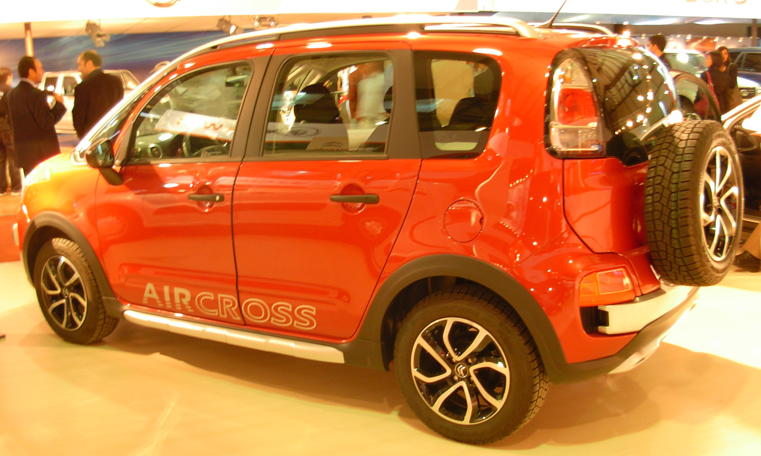 Citroën C3 Aircross at the 2012 Montevideo Motor Show.